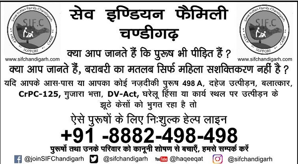 SIF Chandigarh helpline banner contains helpline and all 4 social network links.